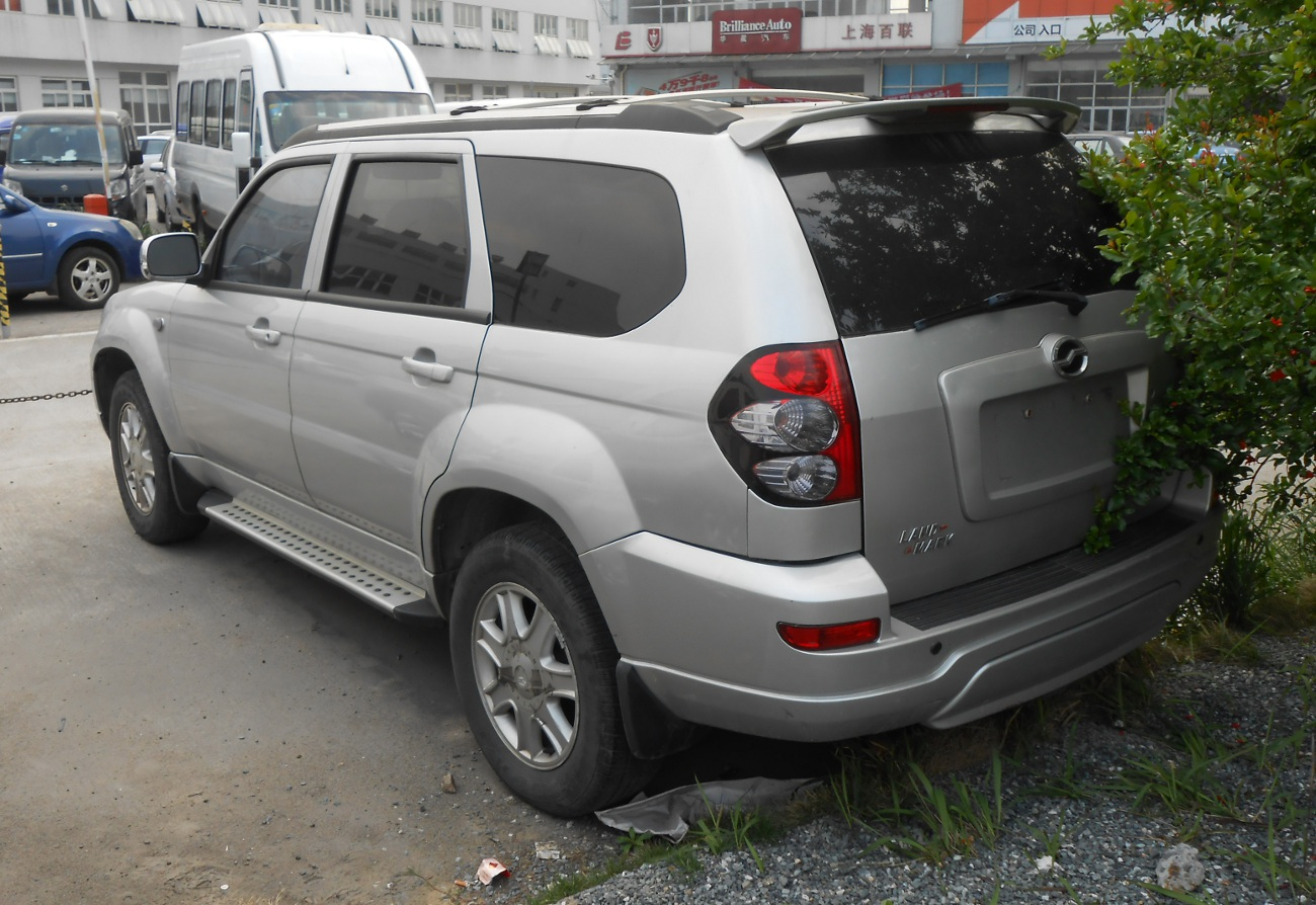 Zhongxing Landmark photographed in a second-hand car market in Shanghai, China.